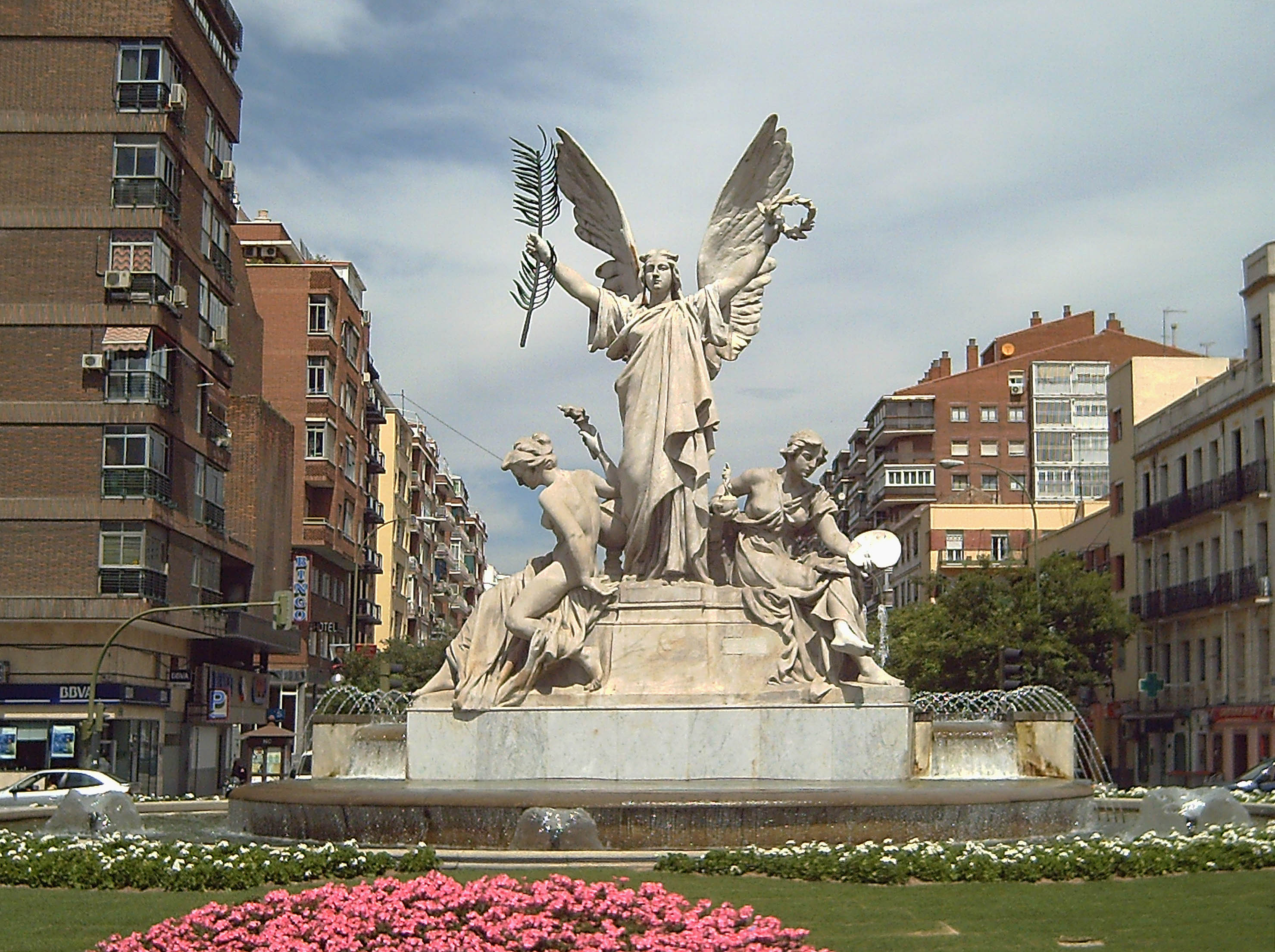 Glory. Allegorical sculpture of Science and Art, at the Glorieta de Cádiz (a roundabout) in Madrid (Spain). It's one of the three parts of a sculptural group named La Gloria y los Pegasos ("The Glory and the Pegasus") that symbolizes Progress and was originally at the top of the Spanish Ministry of Agriculture headquarters (in Madrid). The group was designed by Agustí Querol Subirats (1860–1909), scupted in Carrara marble in 1905, and replaced in 1976 by a bronze replica by Juan de Ávalos. The original marble sculptures were restored and placed at Plaza de Legazpi (square) and Glorieta de Cádiz in 1995 and 1998, respectively. The image shows Science (left) and Art (right) receiving the Apollonian palms and laurels of victory from Glory (centre).